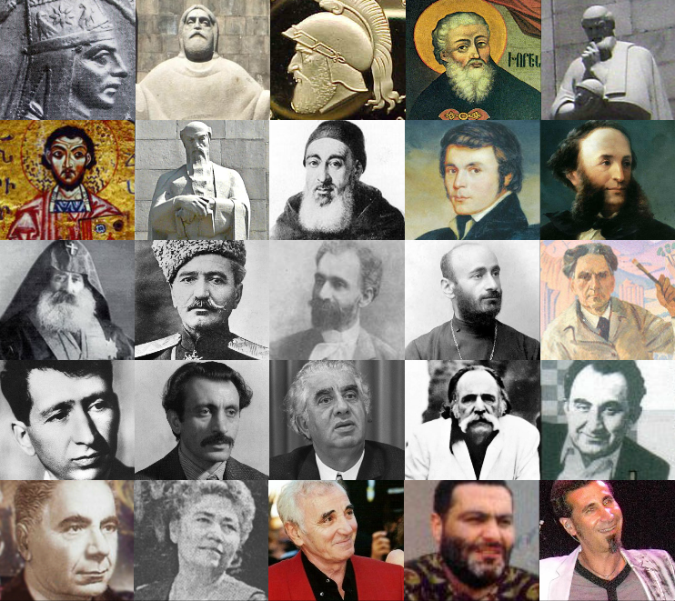 Collage of notable Armenians